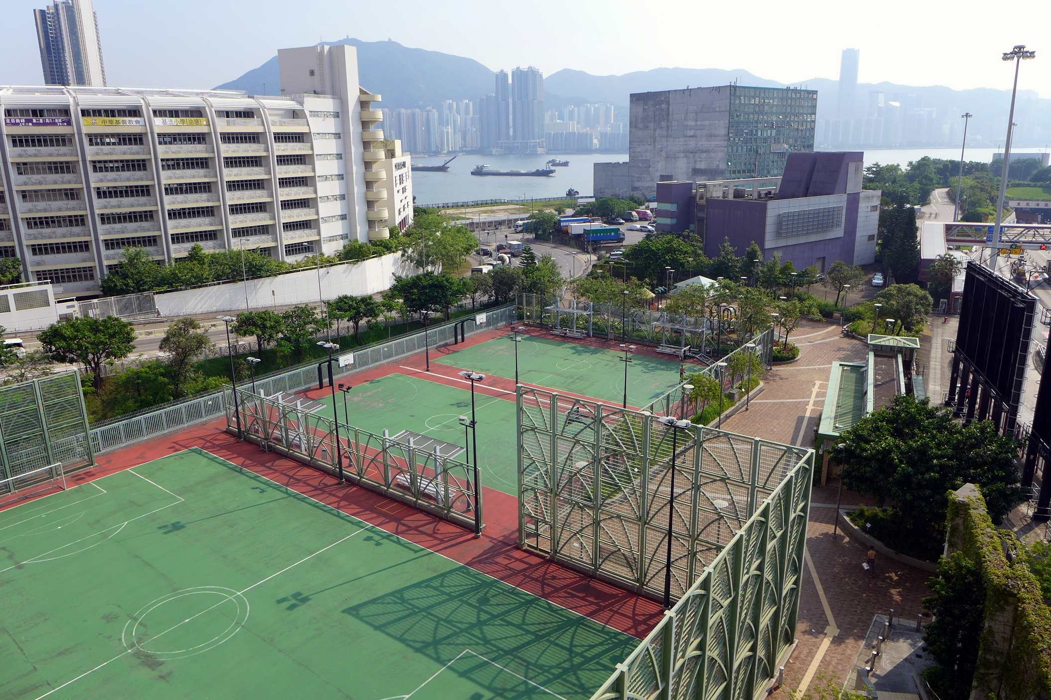 Yau Tong Road Playground